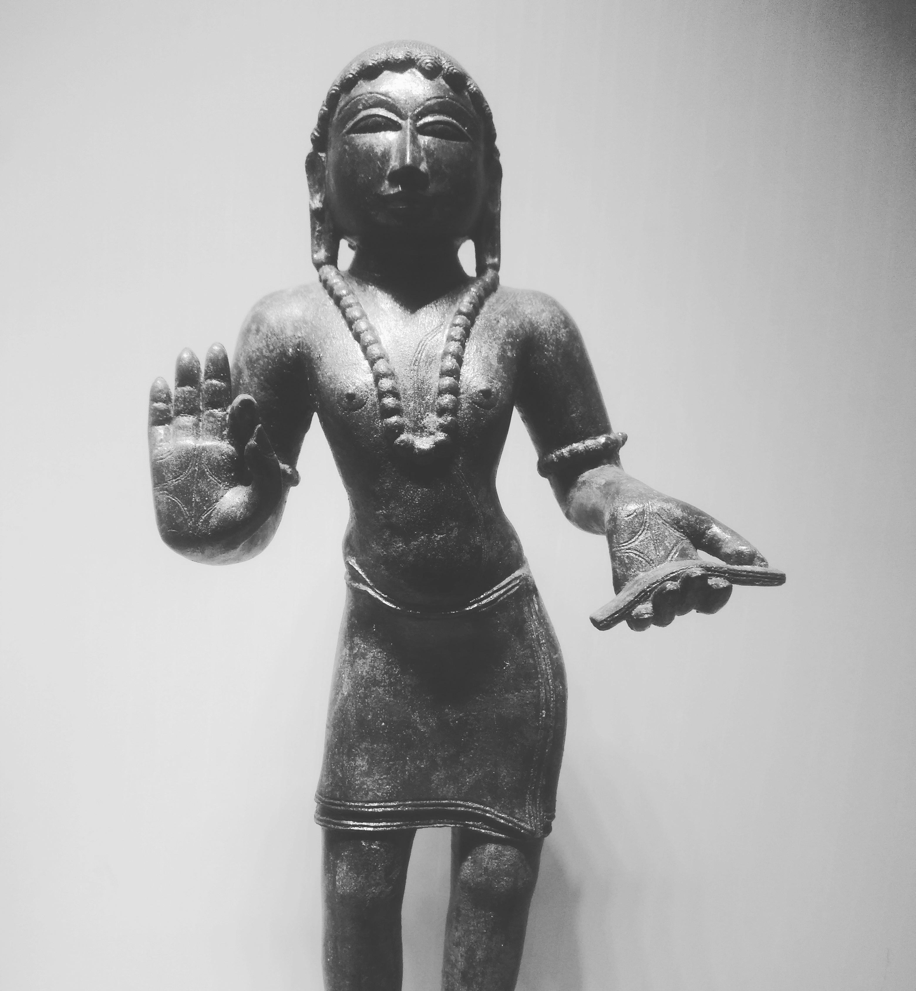 Manikkavachakar : Manikkavachakar standing in tribhanga. He holds a plam leaf book with inscribed letters reading "Om Namah shivah" in Tamil grantha,in his left hand while the right hand is in chin mudra (teaching pose). He wears vastra upavita ,rudrakshamala and a short loin cloth.